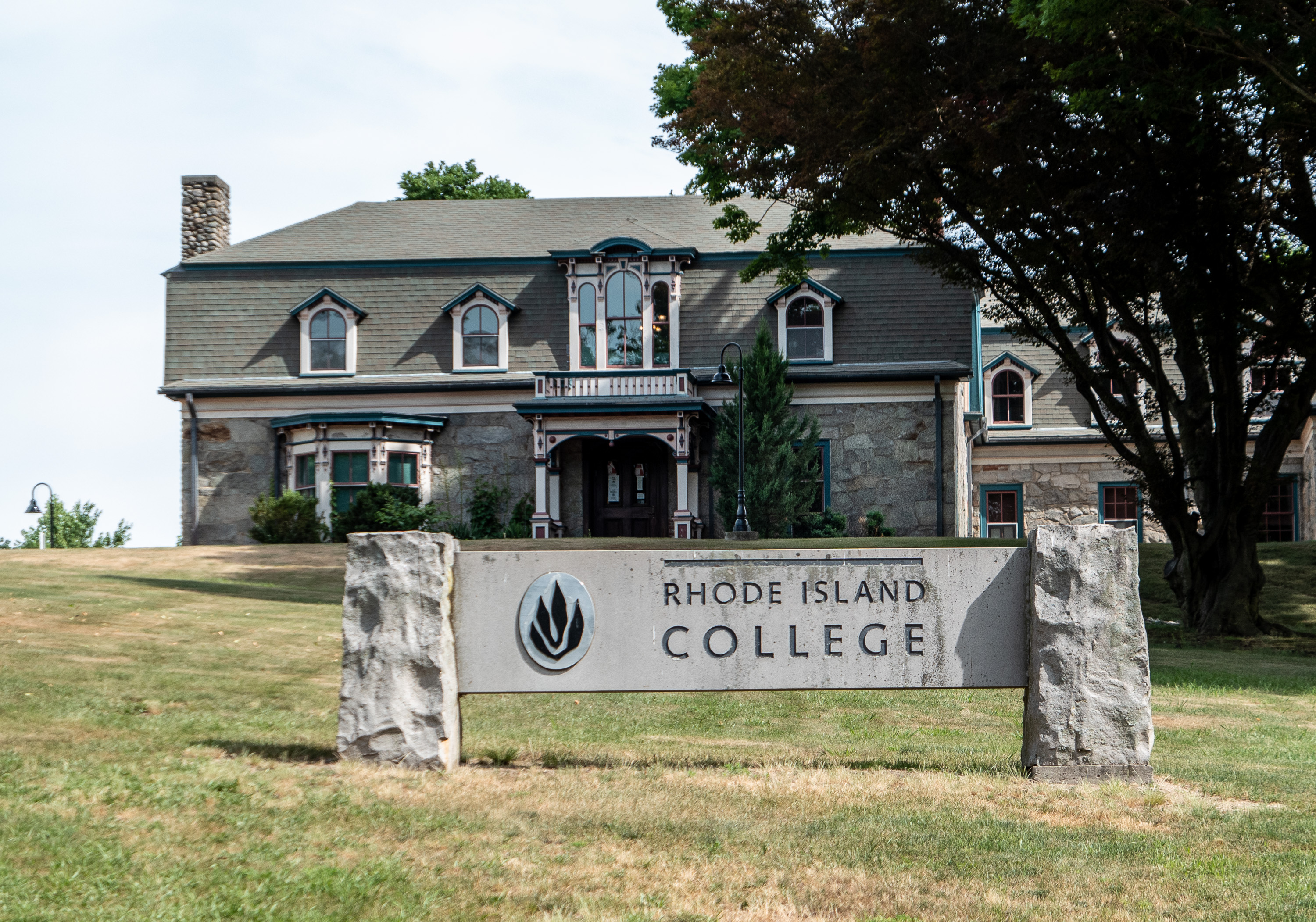 Superintendent's home at the former State Home and School for Dependent and Neglected Children, now part of Rhode Island College's East Campus. Providence, Rhode Island.